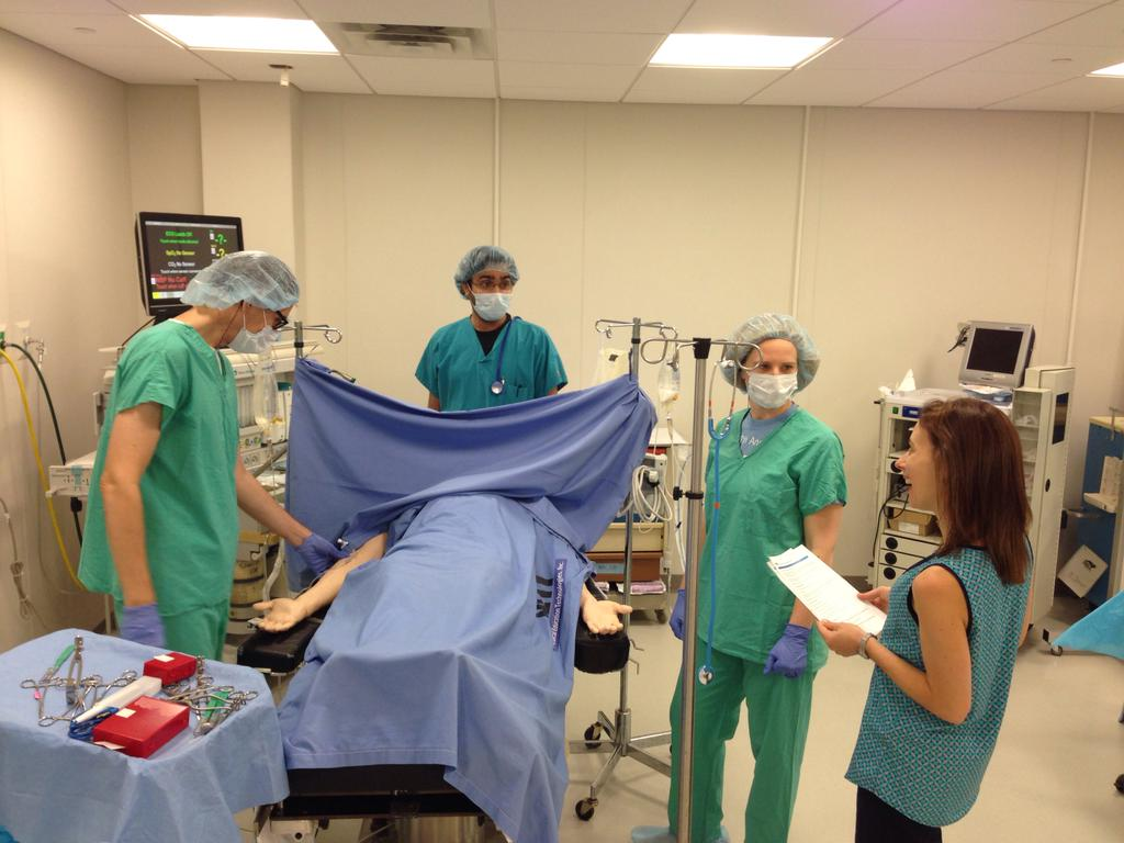 Photo of prebriefing for mixed modality simulation being used to train anesthesia resident at the University of North Carolina